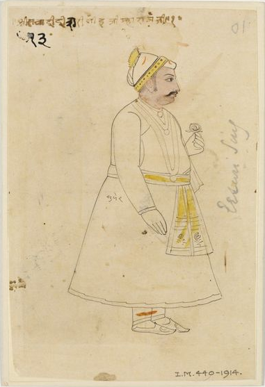 Drawing, in ink with patches of watercolour on paper, depicting Raja Ishwari Singh of Jaipur (1744-1751, son of Jai Singh II) standing facing right, holding a rose in his left hand.